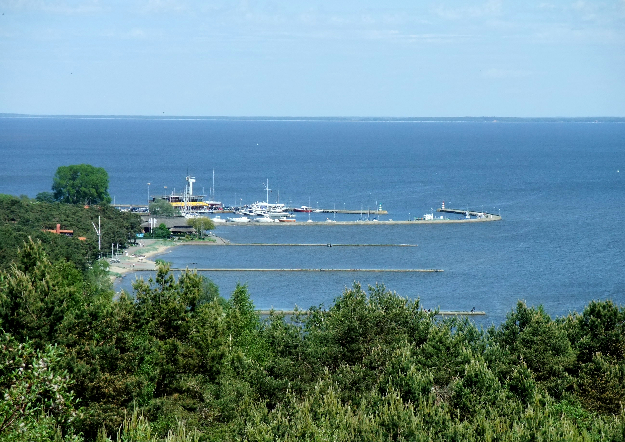 View from the dune to Nida Harbor, Lithuania